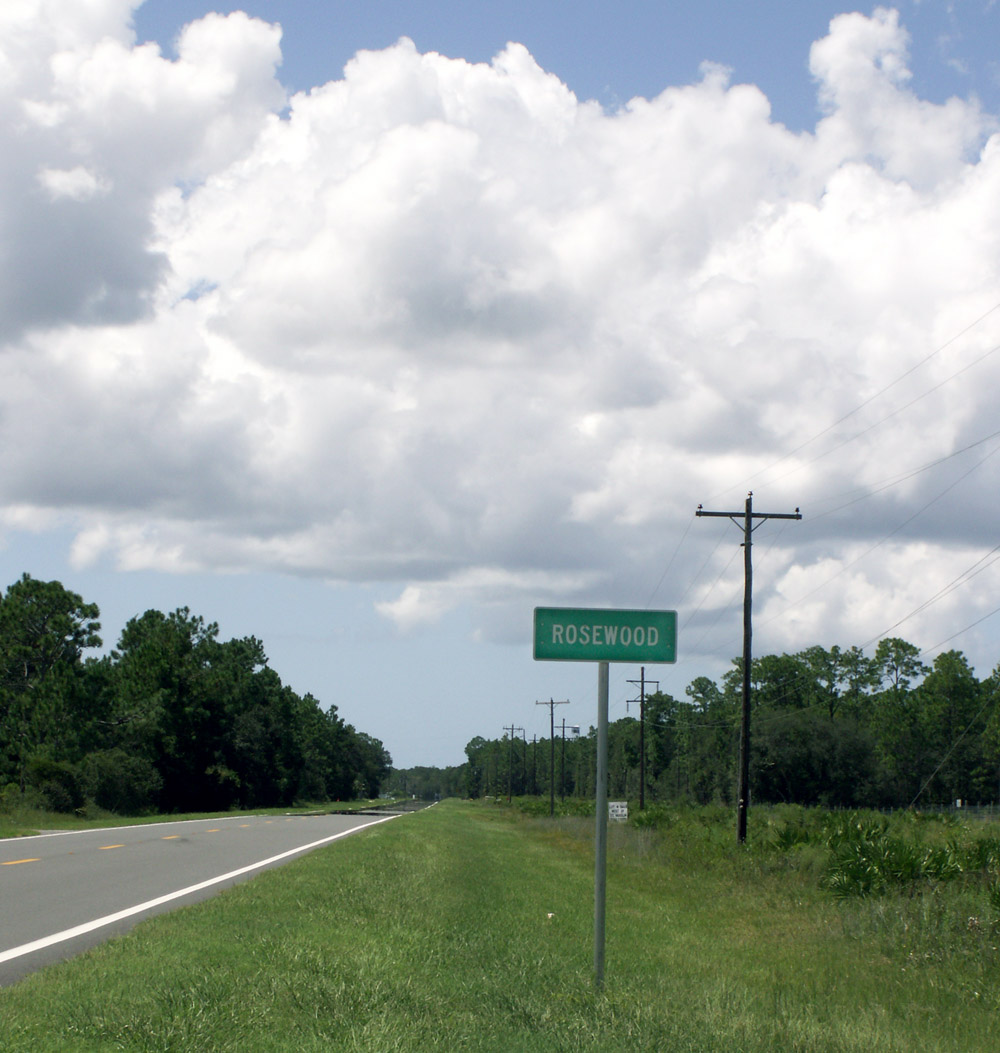 Sign marker for Rosewood, unincorporated area in Levy County; State Highway 24 facing west towards Sumner and Cedar Key